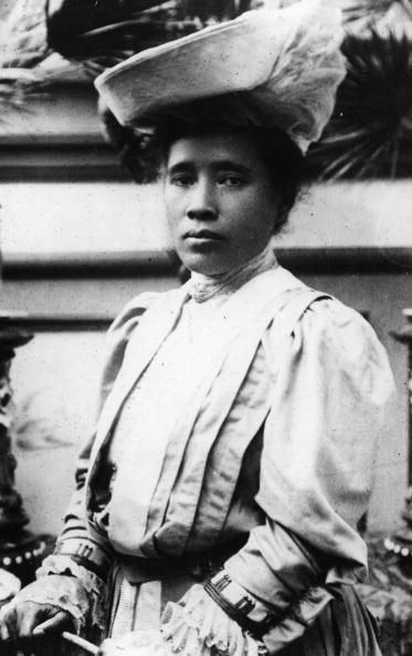 Ranavalona III (November 22, 1861 – May 23, 1917) was the last sovereign of the Kingdom of Madagascar.